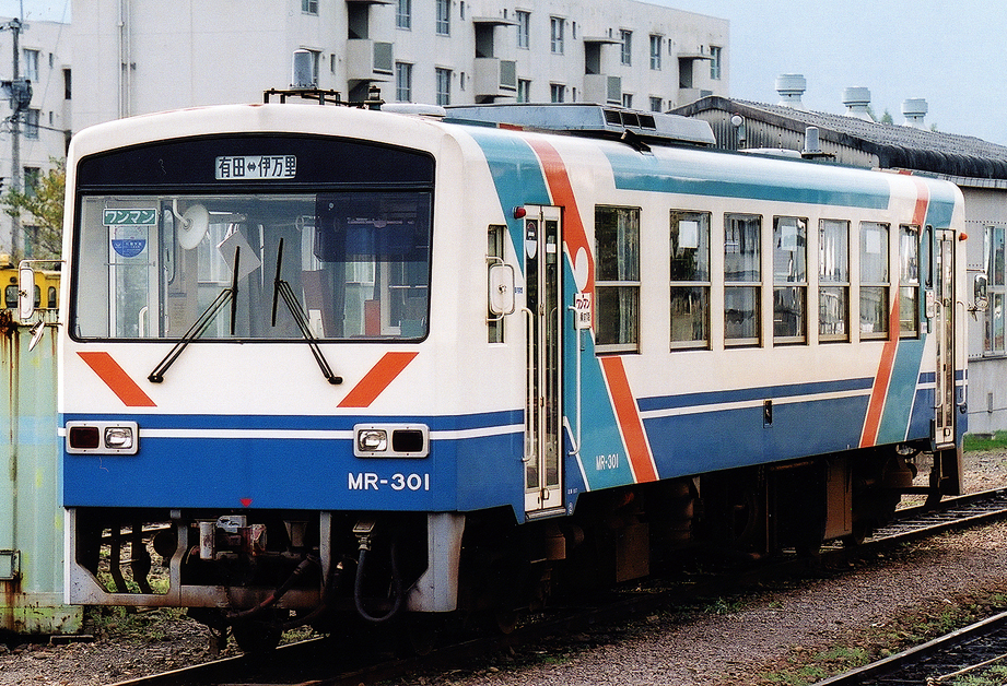 Matsuura Railway MR-300 DMU #301